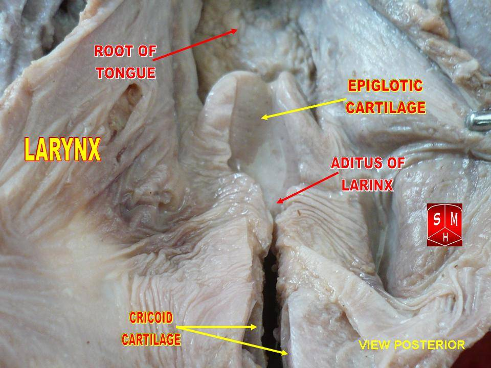 aditus of larynx. The view is toward the anterior. The tongue is anterior (and superior) to the epiglottis, and we are looking at the posterior surface of the epiglottis with the tongue beyond.